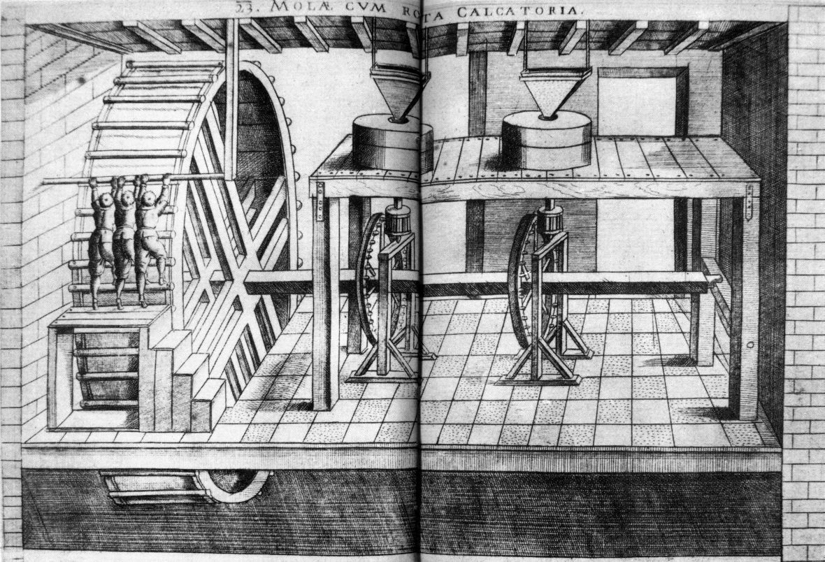 Rota Calcatoria, Fausto Veranzio (treadwheel driven mill)